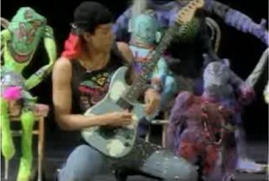 Tom Morello Performing "Nothing New" With Lock Up.